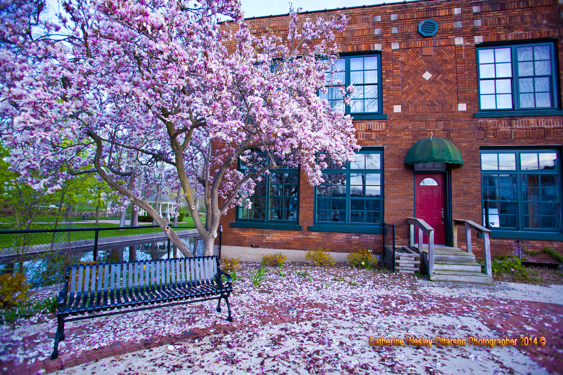 Island City Historic District, N. Former Eaton Rapids Journal Newspaper building on East Hamlin St. Eaton Rapids, Michigan